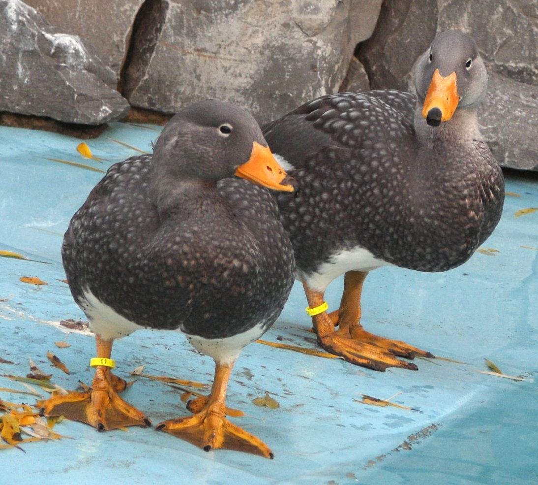 Two Magellanic Flightless Steamer Duck Tachyeres pteneres in Cologne Zoo.